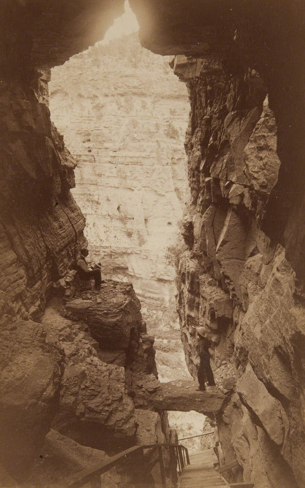 Title: Entrance to Cave of the Winds (#414) Artist: William Henry Jackson Artist Bio: American, 1843 - 1942 Creation Date: 1881 - 1890 Process: Cabinet card Credit Line: Gift of Stanley B. Burns Accession Number: 1984.018.004